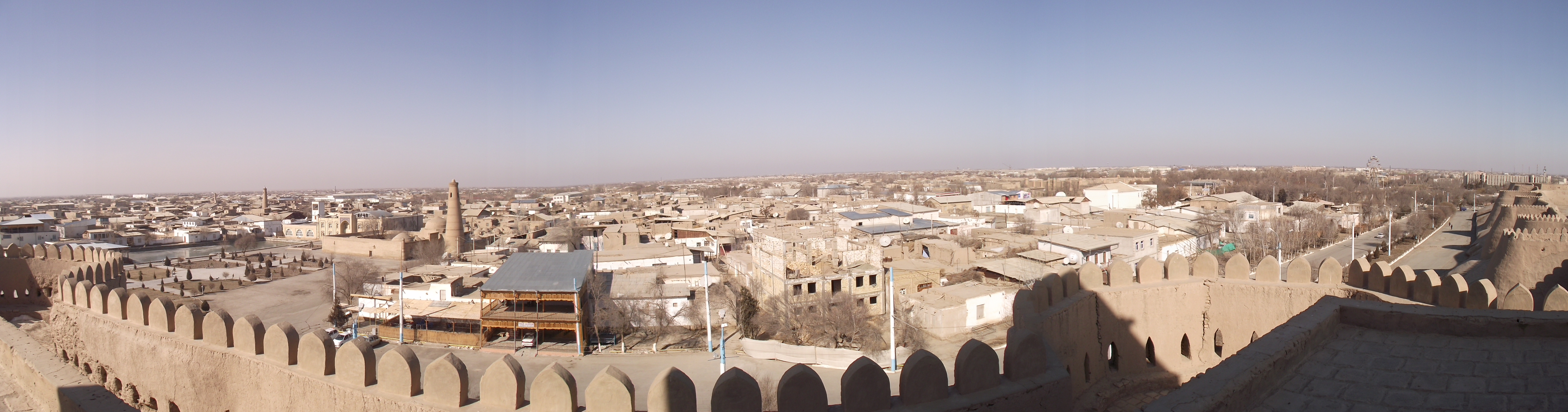 panorama of Khiva (Uz)